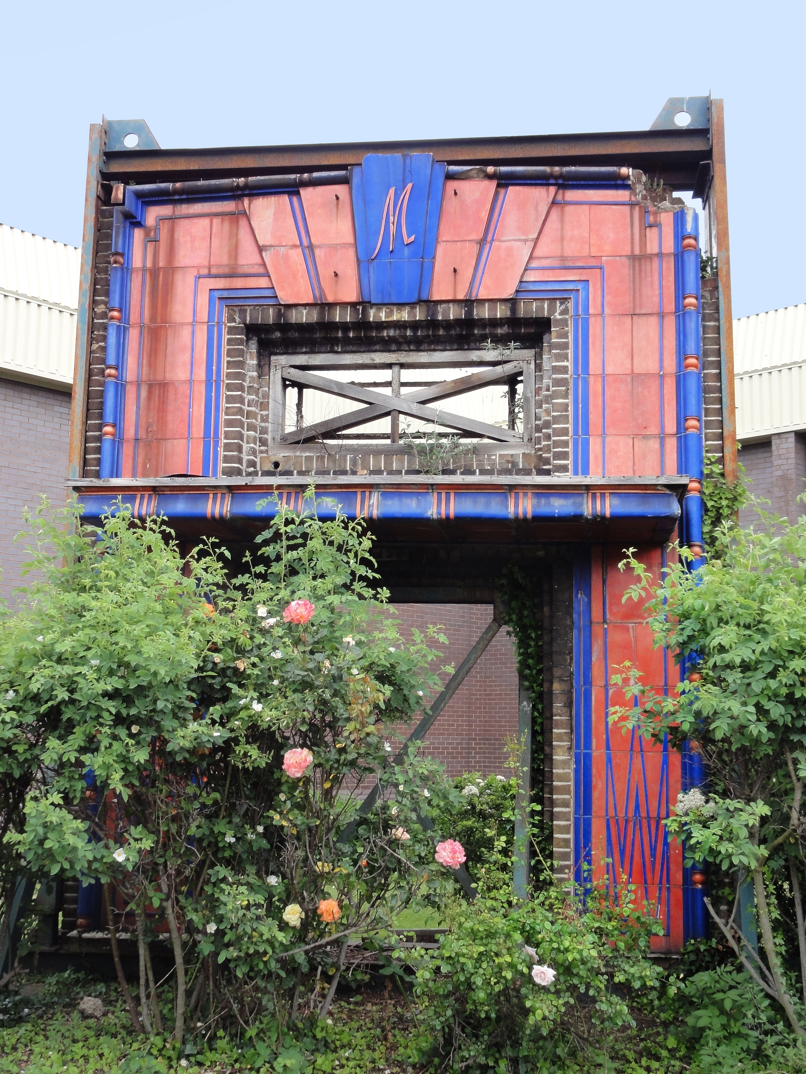 Art Deco Entrance of the Minimax Factory at the junction of Staines Road and Fagg's Road/Harlington Road West. Minimax Limited was a British manufacturer of fire extinguishers founded in England in 1903. Their unique conical fire extinguisher was known as 'The Minimax'. The company was taken over by The Pyrene Company and then Chubb.